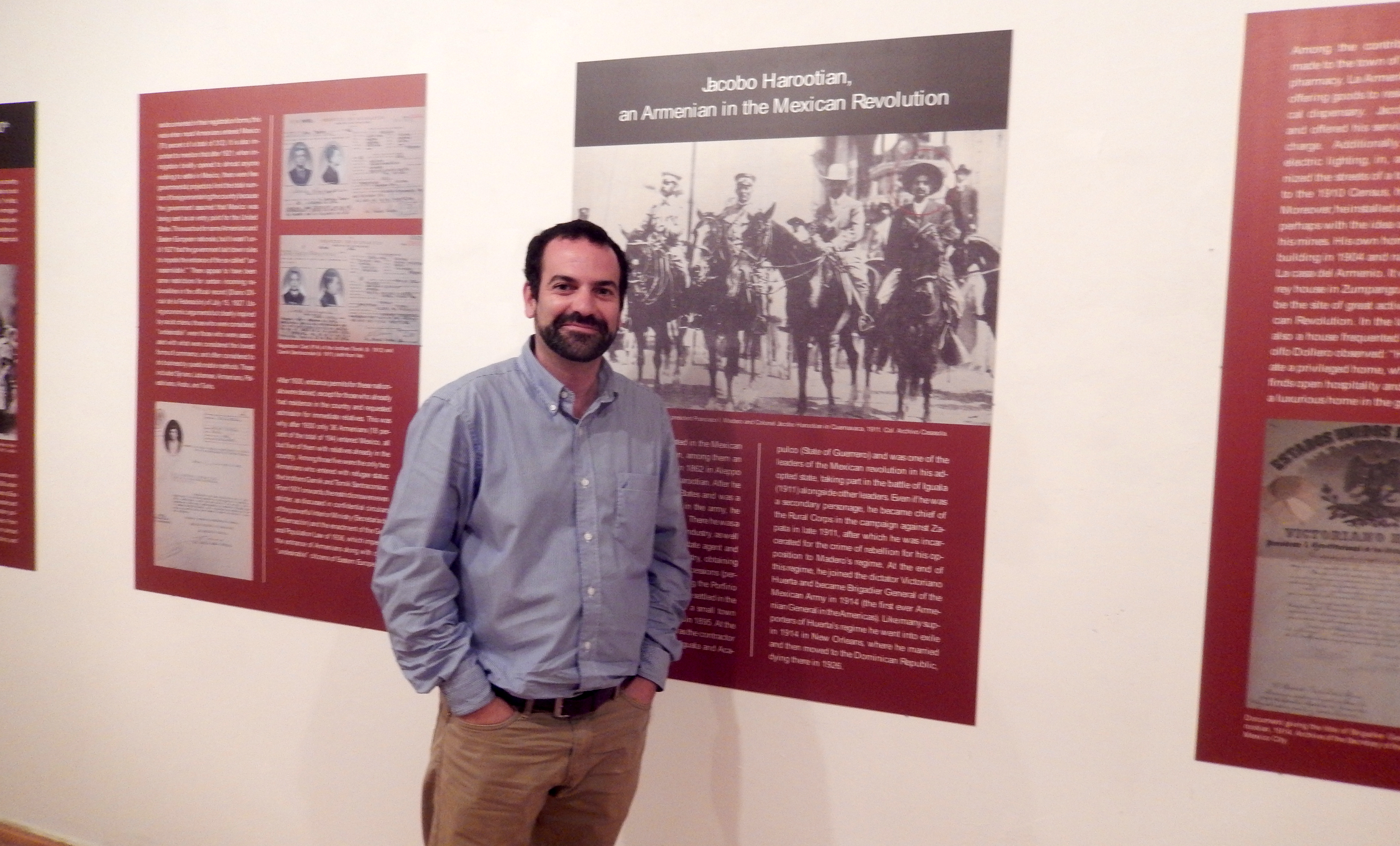 Carlos Antaramian in NPAK at the exhibition "Armenians of Mexico"